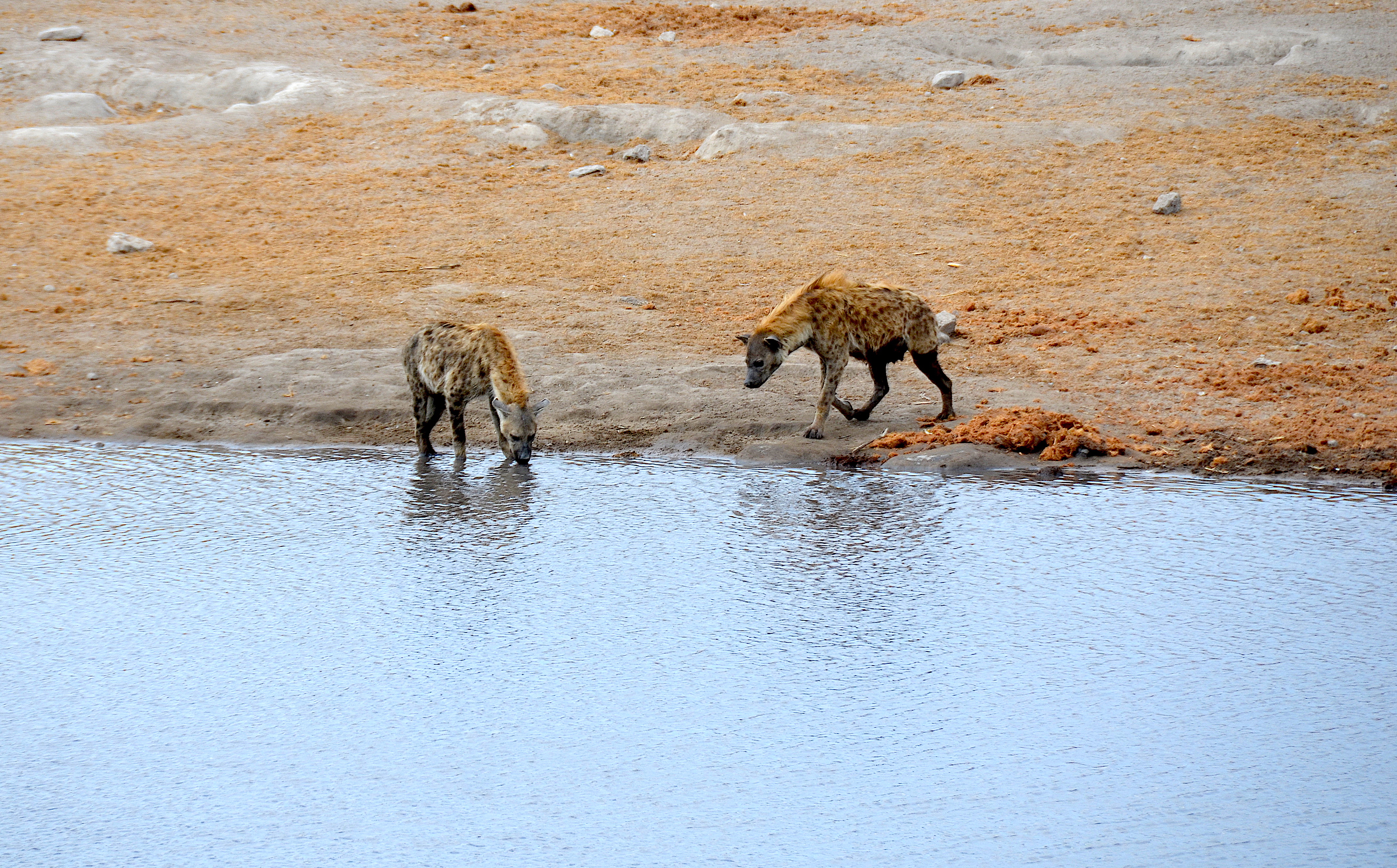 Spotted hyenas at waterhole Chudop, Etosha National Park